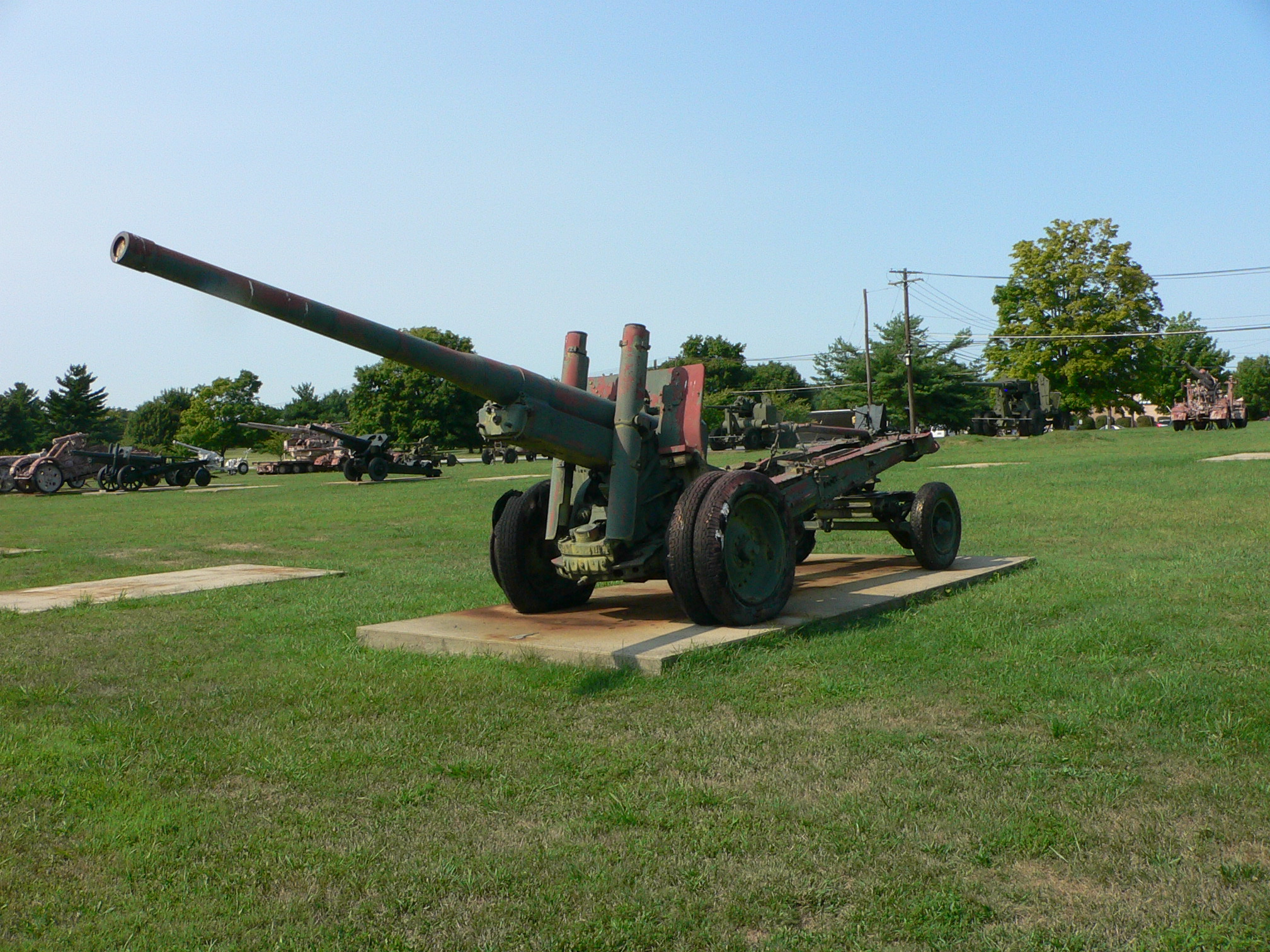 Picture taken by myself, Mark Pellegrini, at the United States Army Ordnance Museum (Aberdeen Proving Ground, MD) on August 14, 2007.